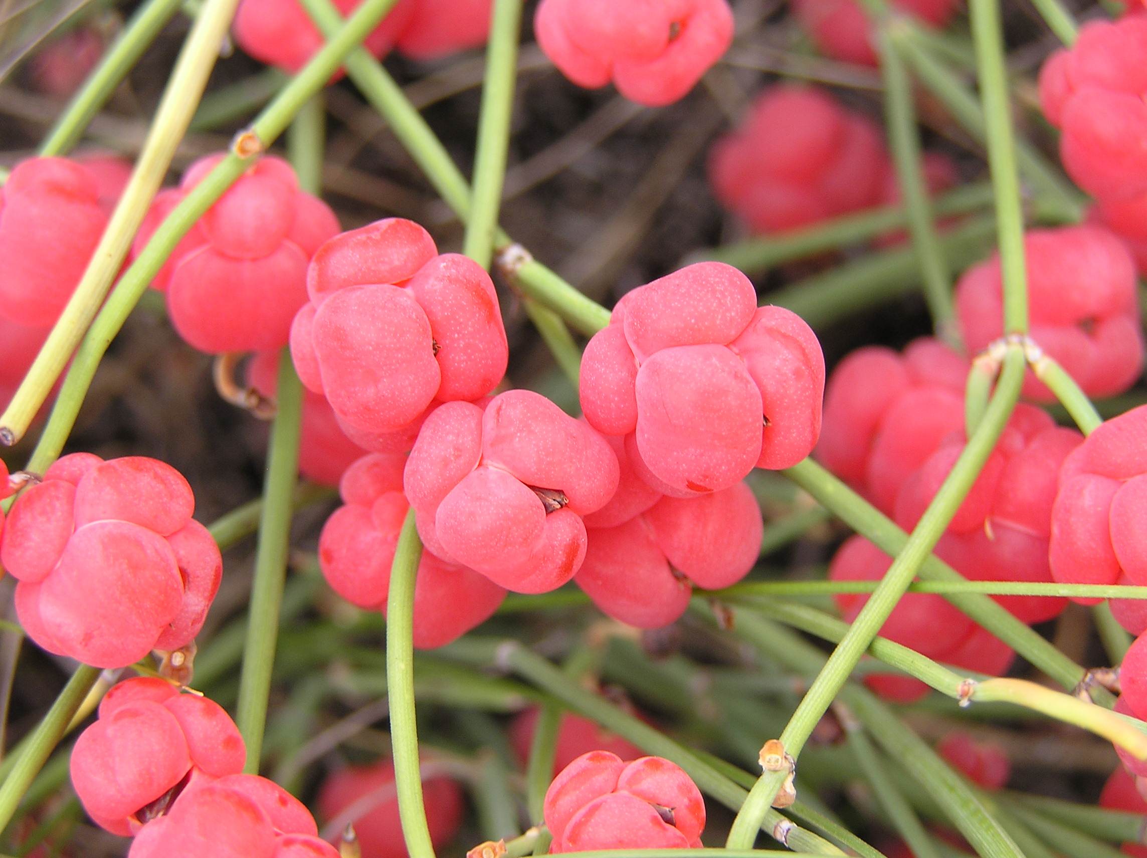 Ephedra distachya subsp. monostachya (L.) Riedl., female plant with ripe cones. Habitat: steppe on a slope. Vicinity of Saratov city, Russia.